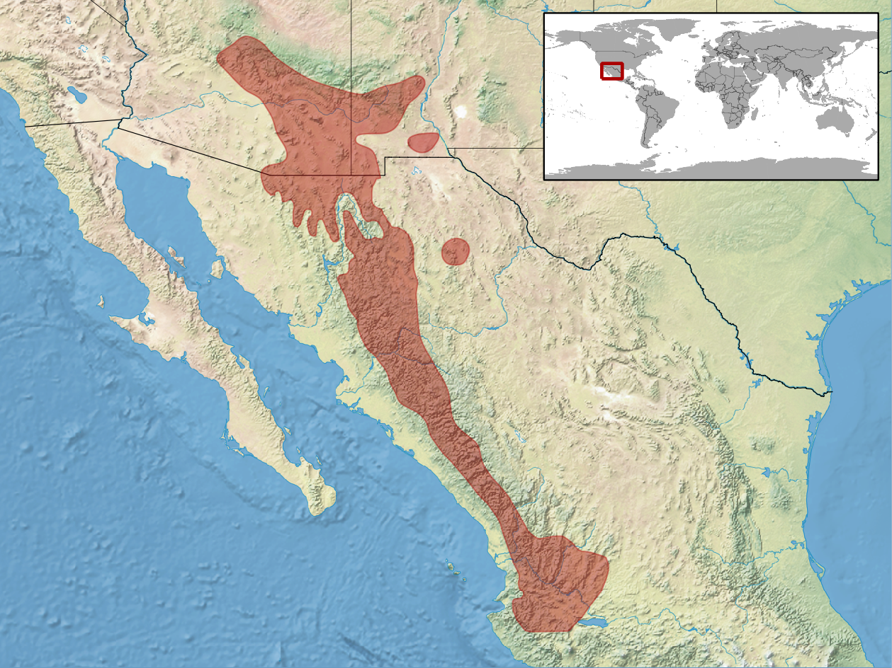 geographic distribution of Elgaria kingii (Native: Mexico; United States)